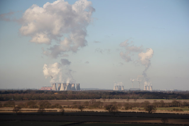 Megawatt Valley Cottam and West Burton power stations prominent in the Trent Valley View NW from the top of All Saints' church spire during repair and restoration works in 2010